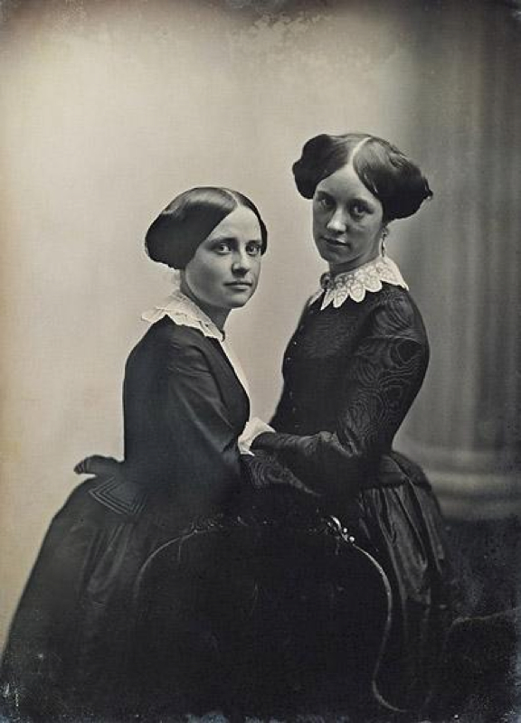 Two woman posed